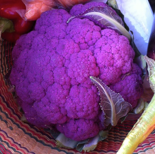 Purple cauliflower. Crop of image basket of vegetables.jpg.